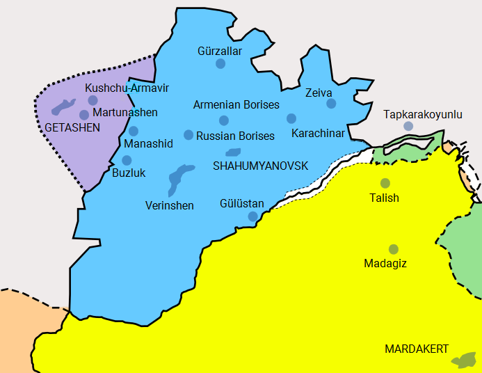 Shaumyan and Getashen district